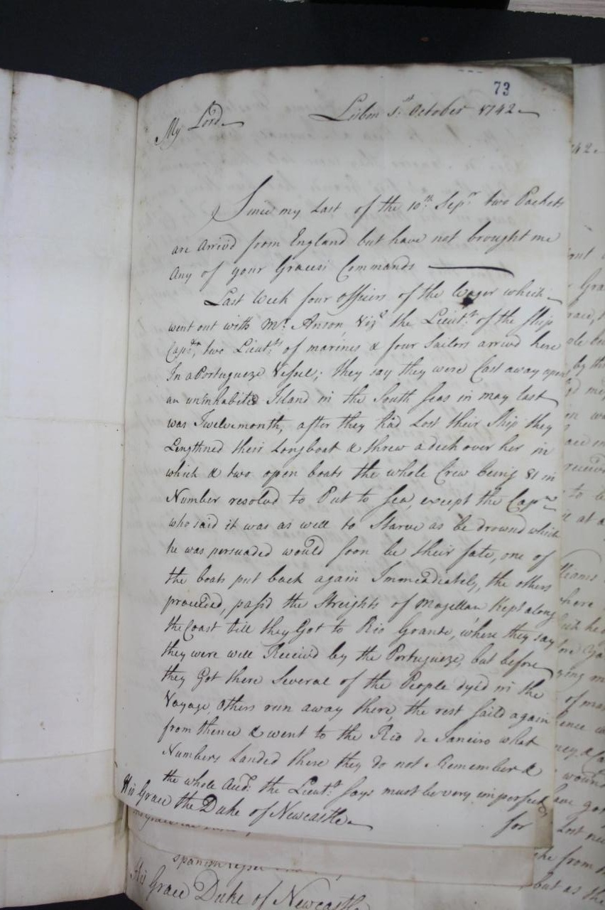 Digital photo copy of document (page 1 of 2) from UK national archives ref: SP 89/42. Report from British Ambassador to Portugal to Duke od Newcastle (Sec. of State) of HMS Wager survivors who went from Chile to England via Lisbon.